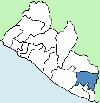 Map showing location of River Gee County in Liberia